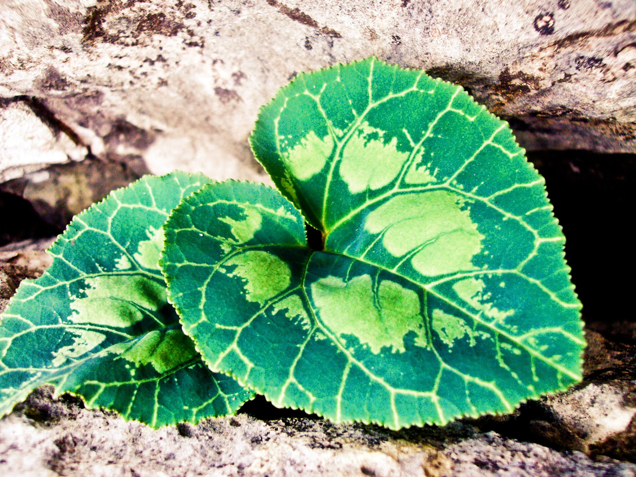 Cyclamen Leaves